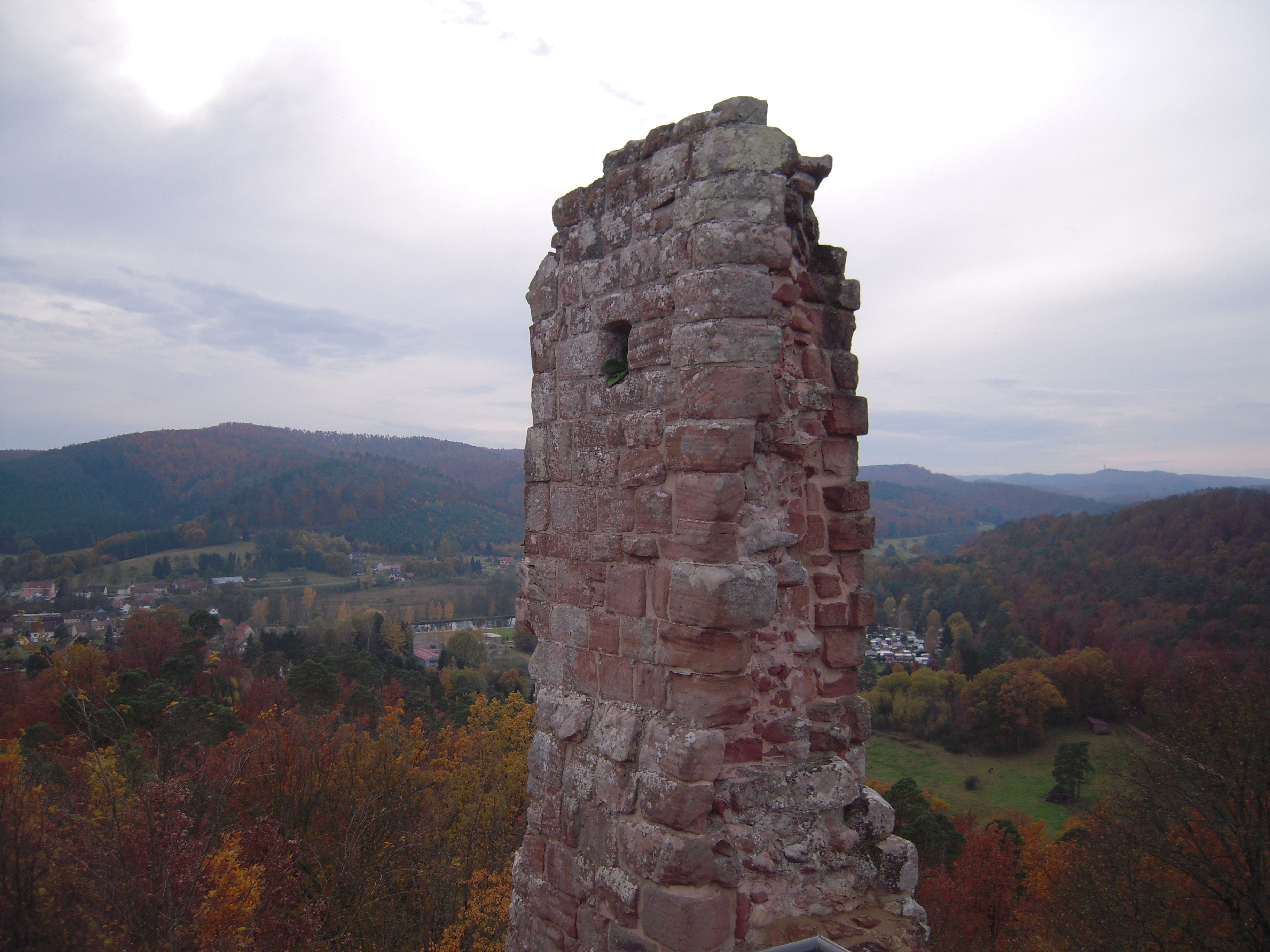 Ruins of the Ramstein Castle in Baerenthal (Moselle, France). .